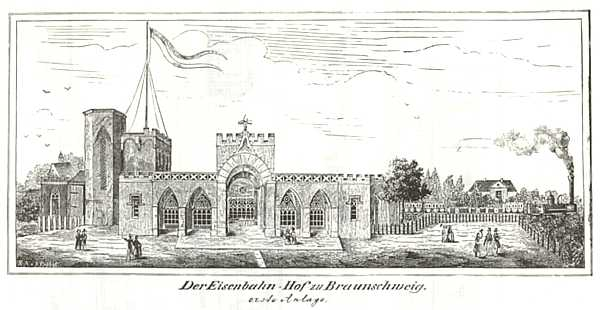 First Railway Station Building in Braunschweig Germany 1838